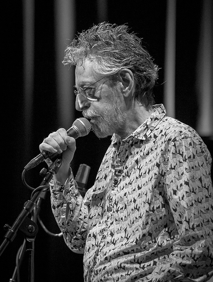 Mike Mainieri and Bendik Hofseth performs at Cosmopolite in Oslo on 04. May 2016. Backed by Jazzcode and later in the concert by Cosmopolitans. The musicians had earlier that week recorded three albums in a studio in Oslo.Lineup:Mike Mainieri (vibraphone)Bendik Hofseth (tenor saxophone)Jørn Øien (piano)Bruno Raberg (double bass)Sidiki Camara (percussion)Carl Størmer (drums)Jacob Young (guitar)Helge Iberg (piano)Paolo Vinaccia (percussion)